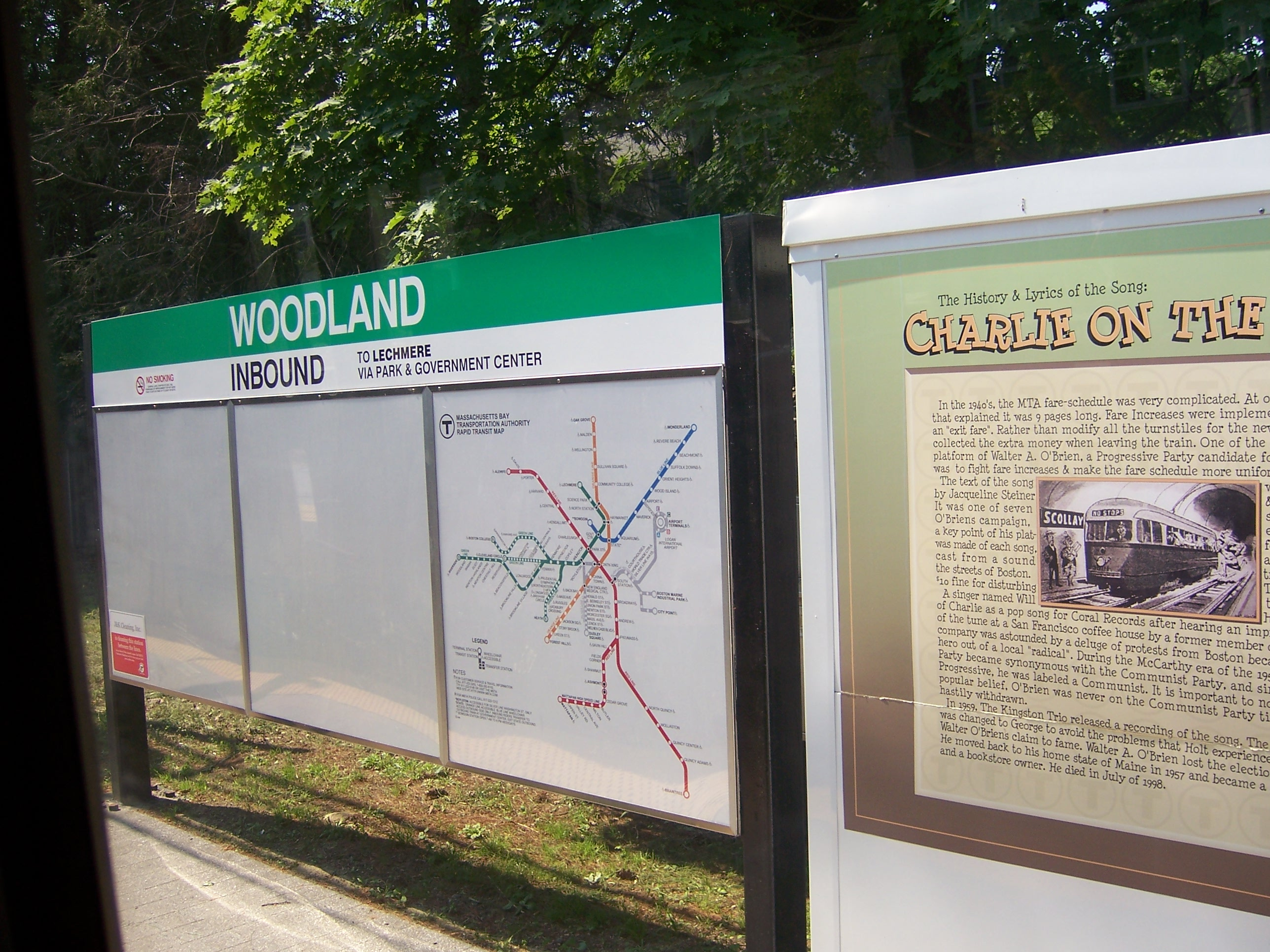 Signage at Woodland MBTA station.